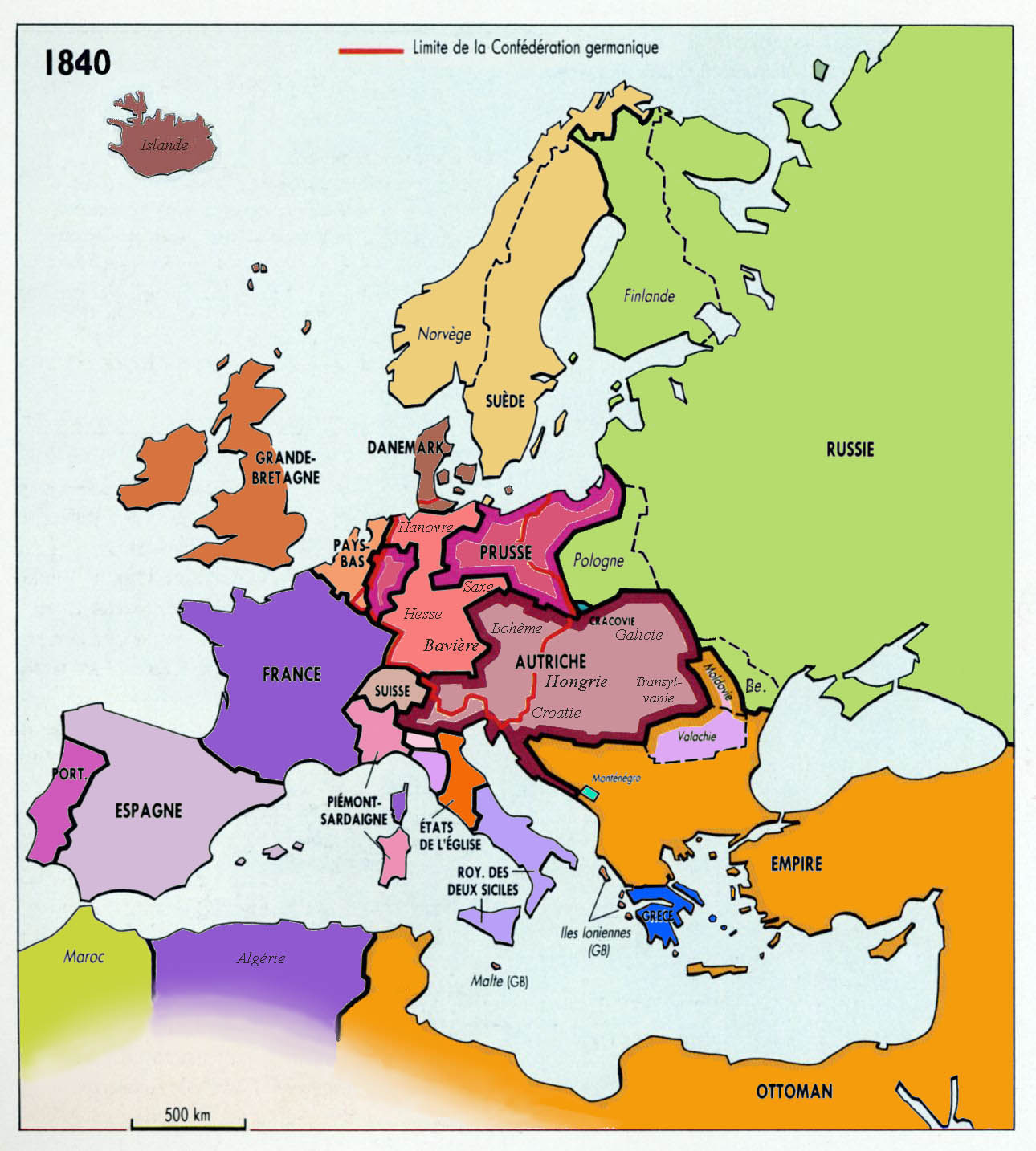 Historical map of Europe, year 1840